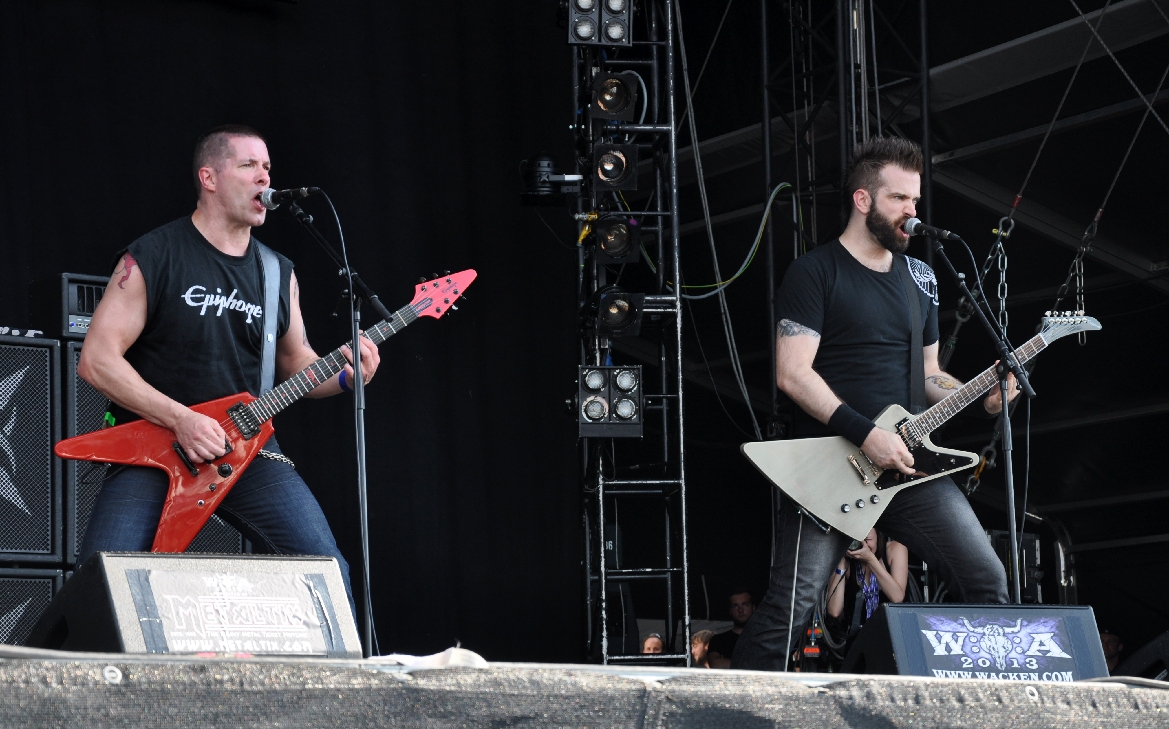 Annihilator at Wacken Open Air 2013